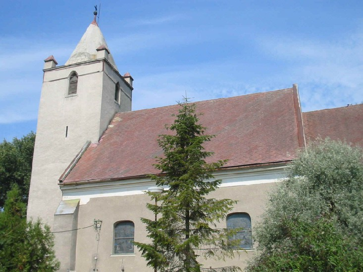 The Reformed Church in Nyékvárkony ( Vrakúň ), Slovakia